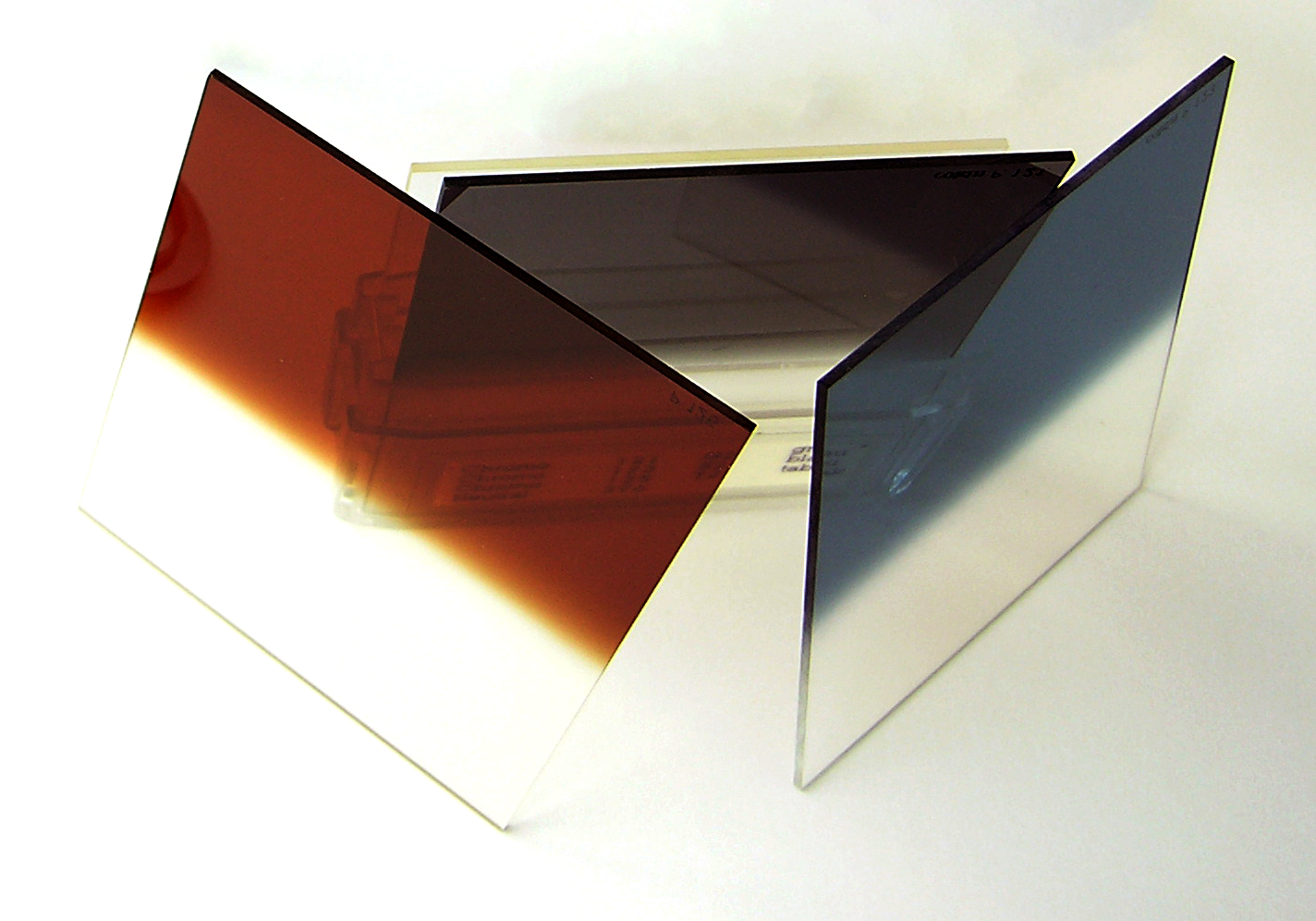 Cokin filter system for photography: graduatred color filters